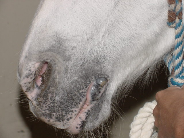 multiple melanomas in an old grey horse